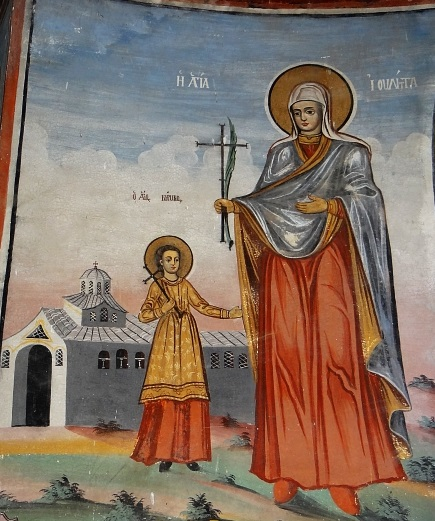 Gorni Voden Monastery Frescos.